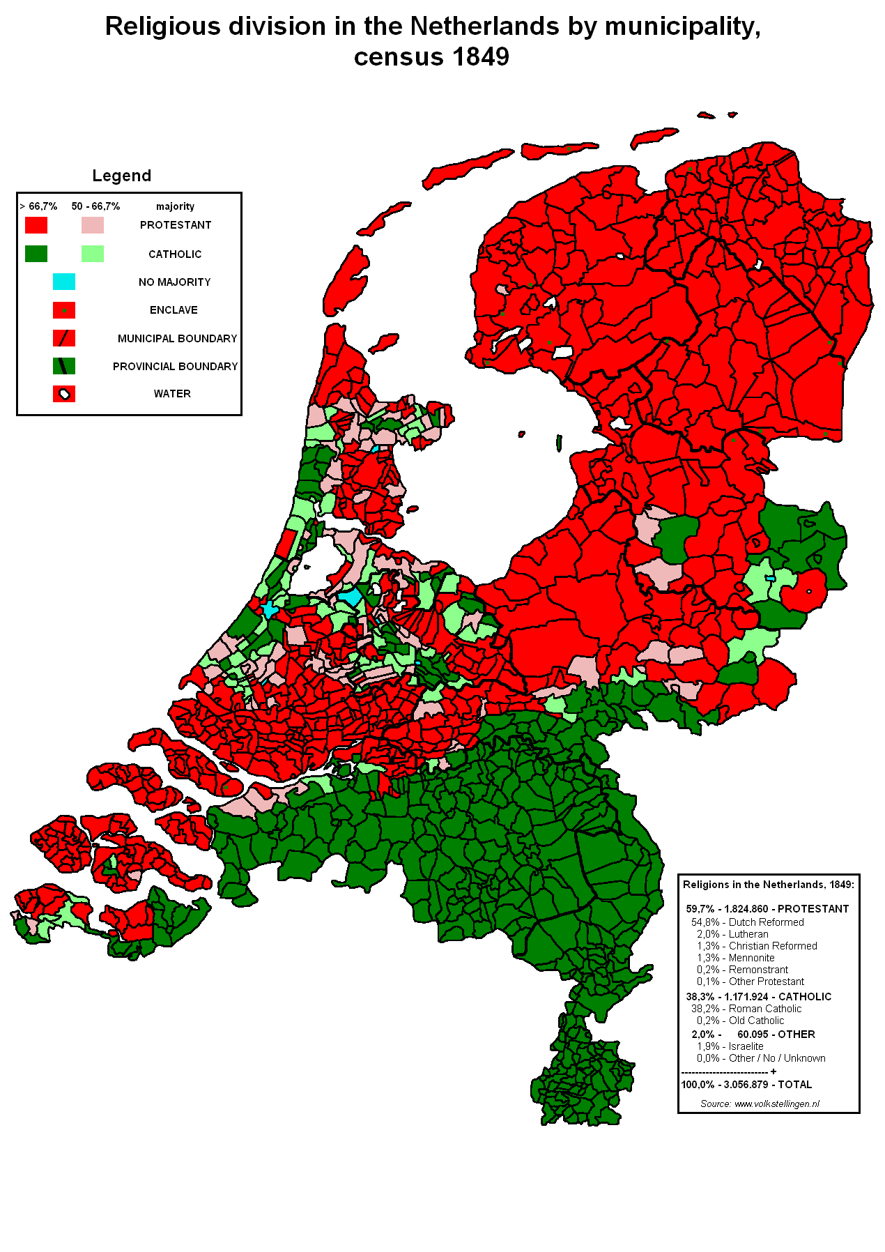 Religious division in the Netherlands by municipality at the census of 1849